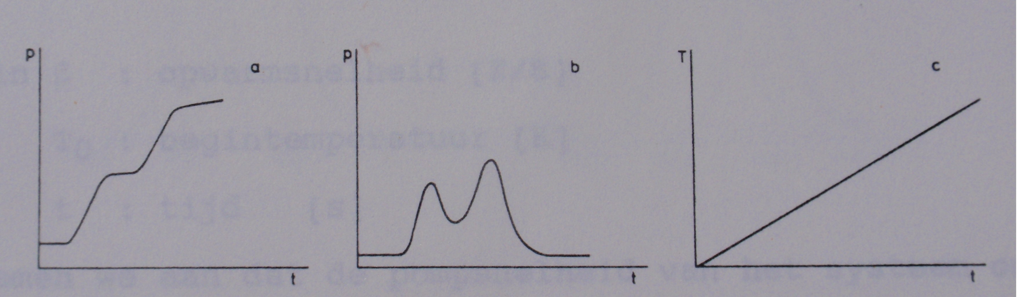 Grahp of several pressure versus time models in a closed system